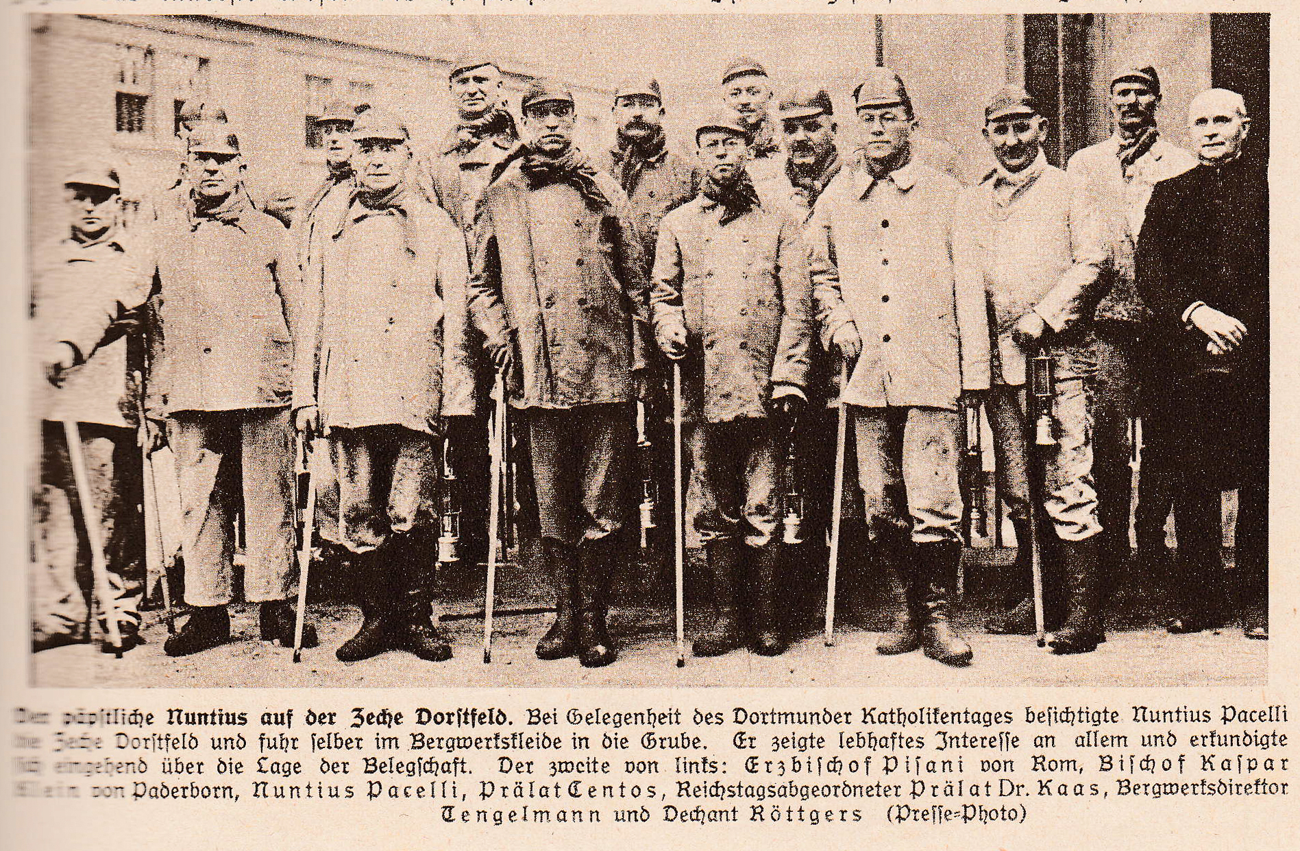 While serving as Papal Nuncio to Bavaria, Eugenio Maria Giuseppe Giovanni Pacelli visits the Dorstfeld Mines.